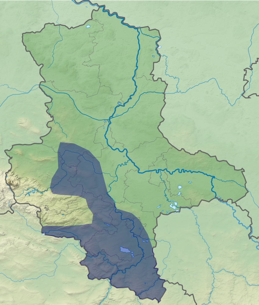 Distribution area of the Thuringian culture in Saxony-Anhalt